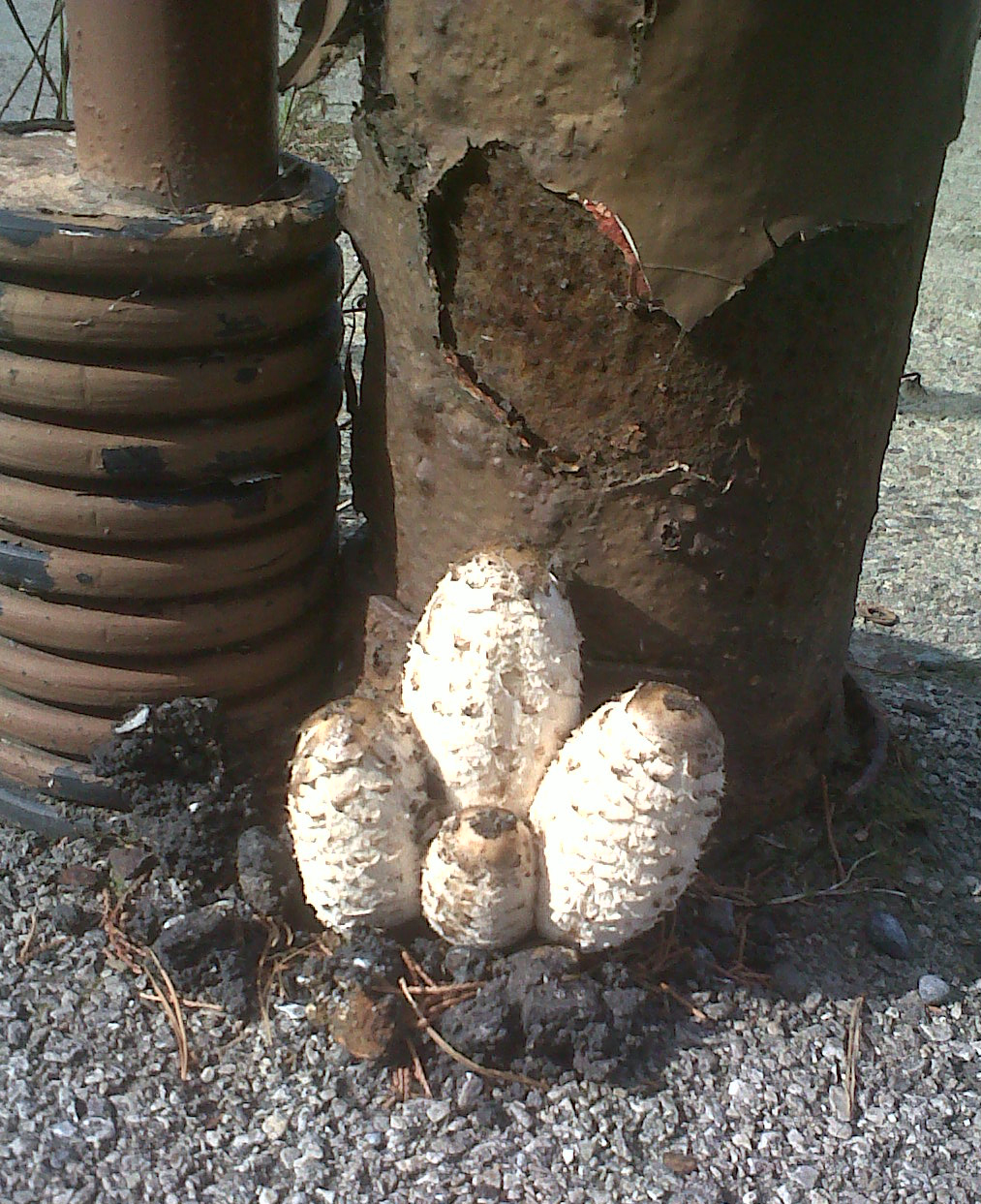 A group of shaggy ink cap fungi (coprinus comatus) growing through asphalt. Sandleas Way, Cross Gates, Leeds, UK.